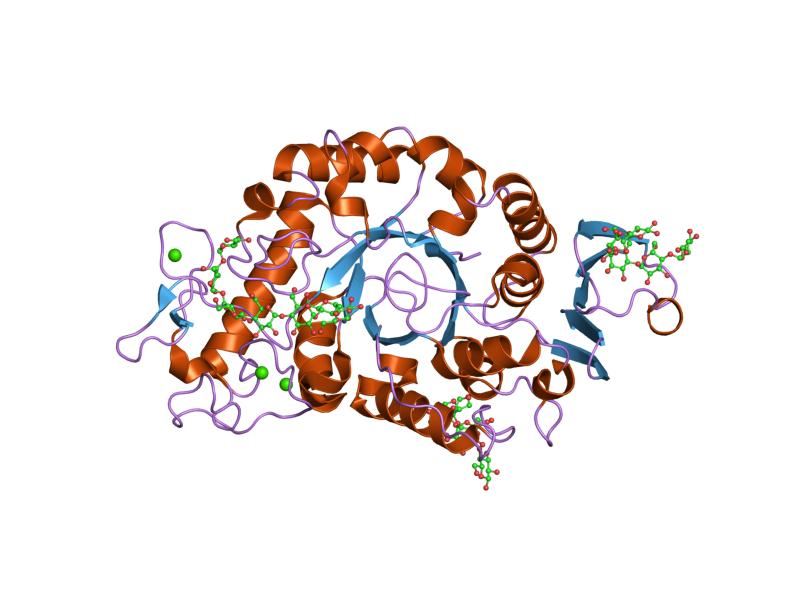 Cartoon representation of the molecular structure of protein registered with 1rp8 code.